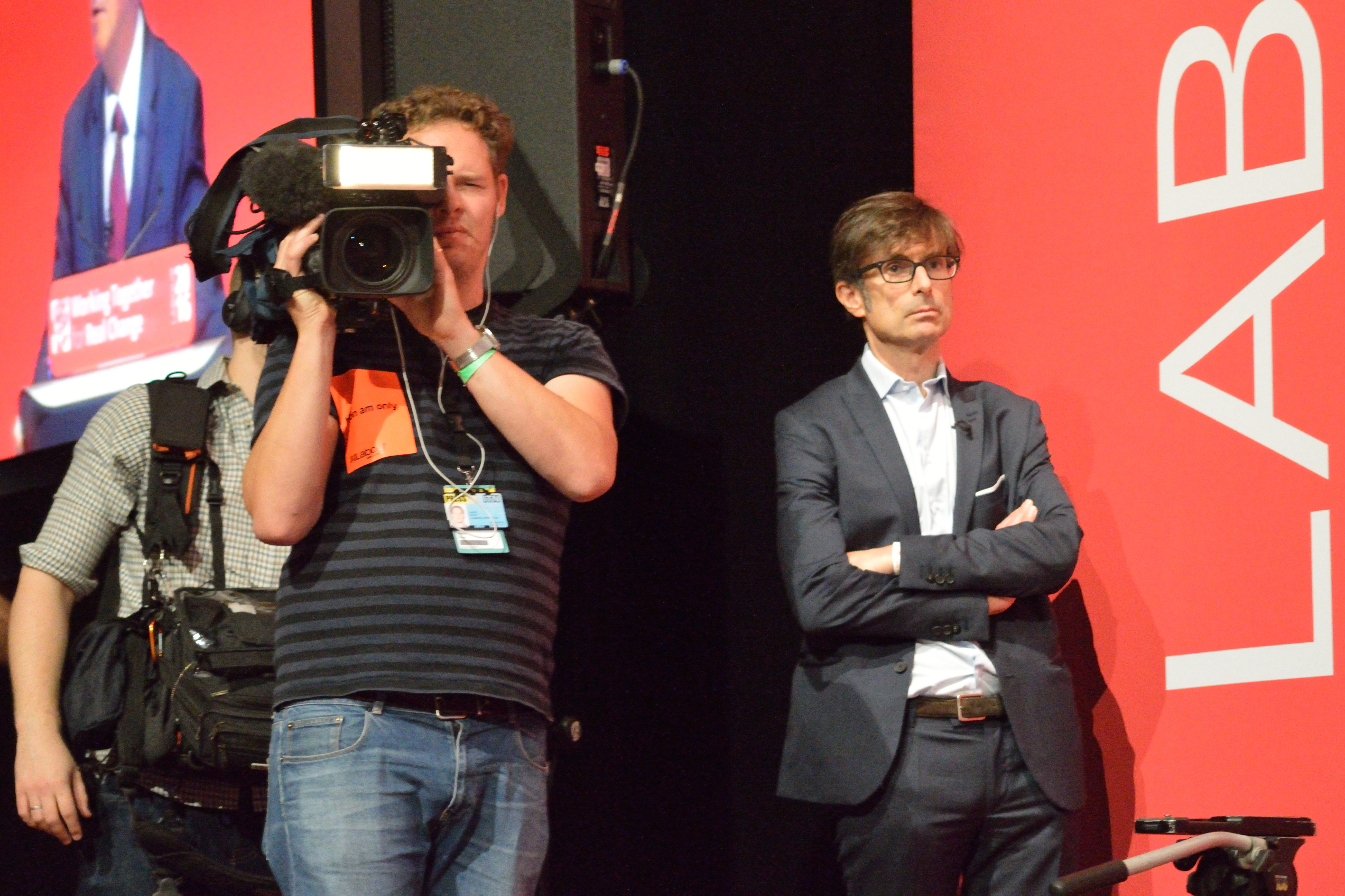 Robert Peston with a film crew at the 2016 Labour Party Conference in Liverpool, on the edge of the podium area of the hall, watching John McDonnell giving his Shadow Chancellor of the Exchequer speech.